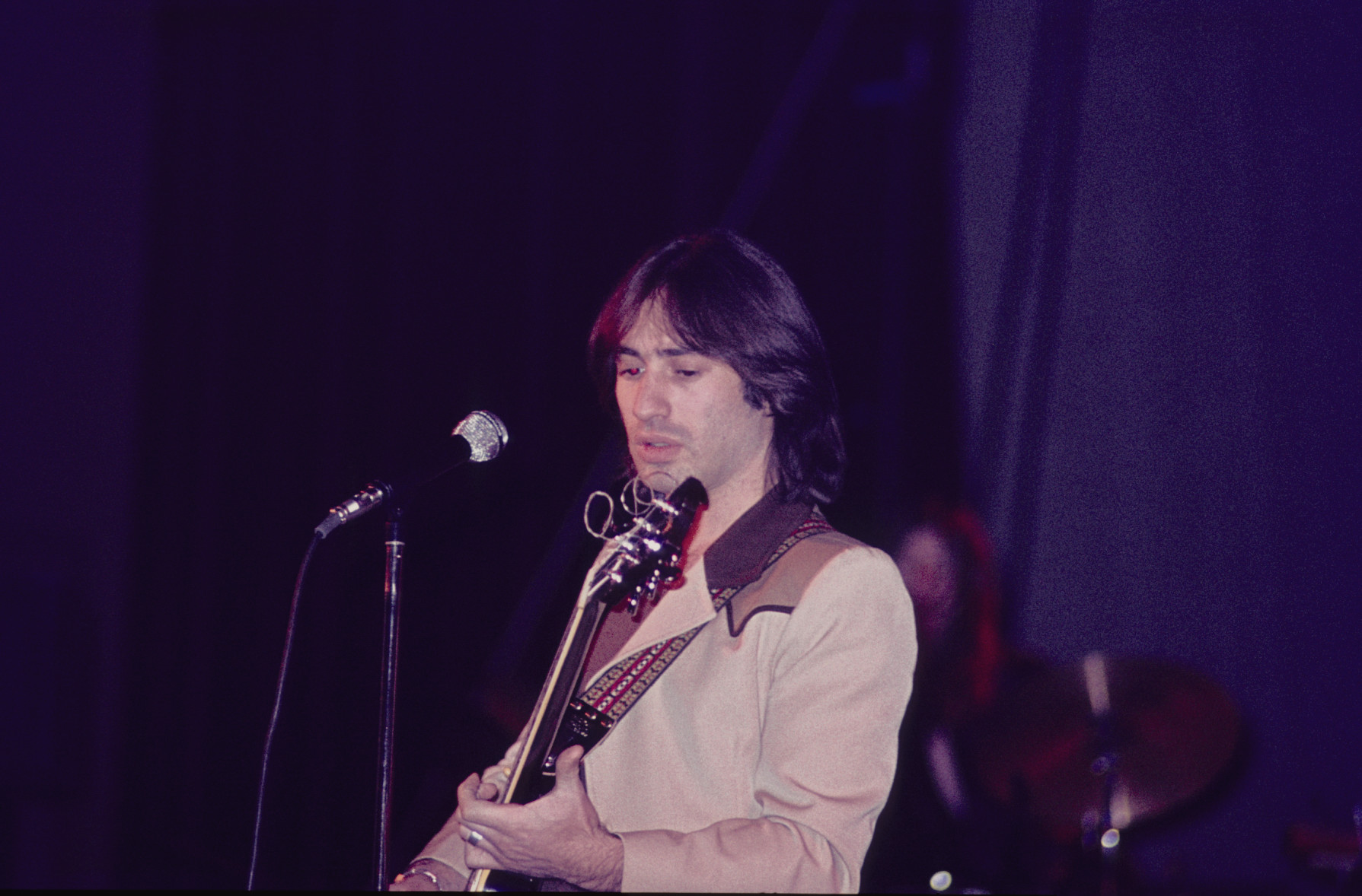 10cc - 13 - April 1976 -Lol Creme, band's guitarist